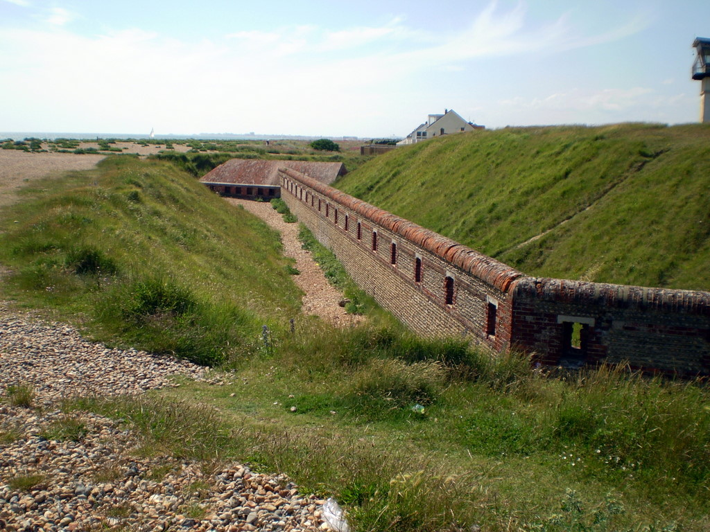 Carnot wall at the base of Shoreham Fort, Shoreham Beach, Sussex, England